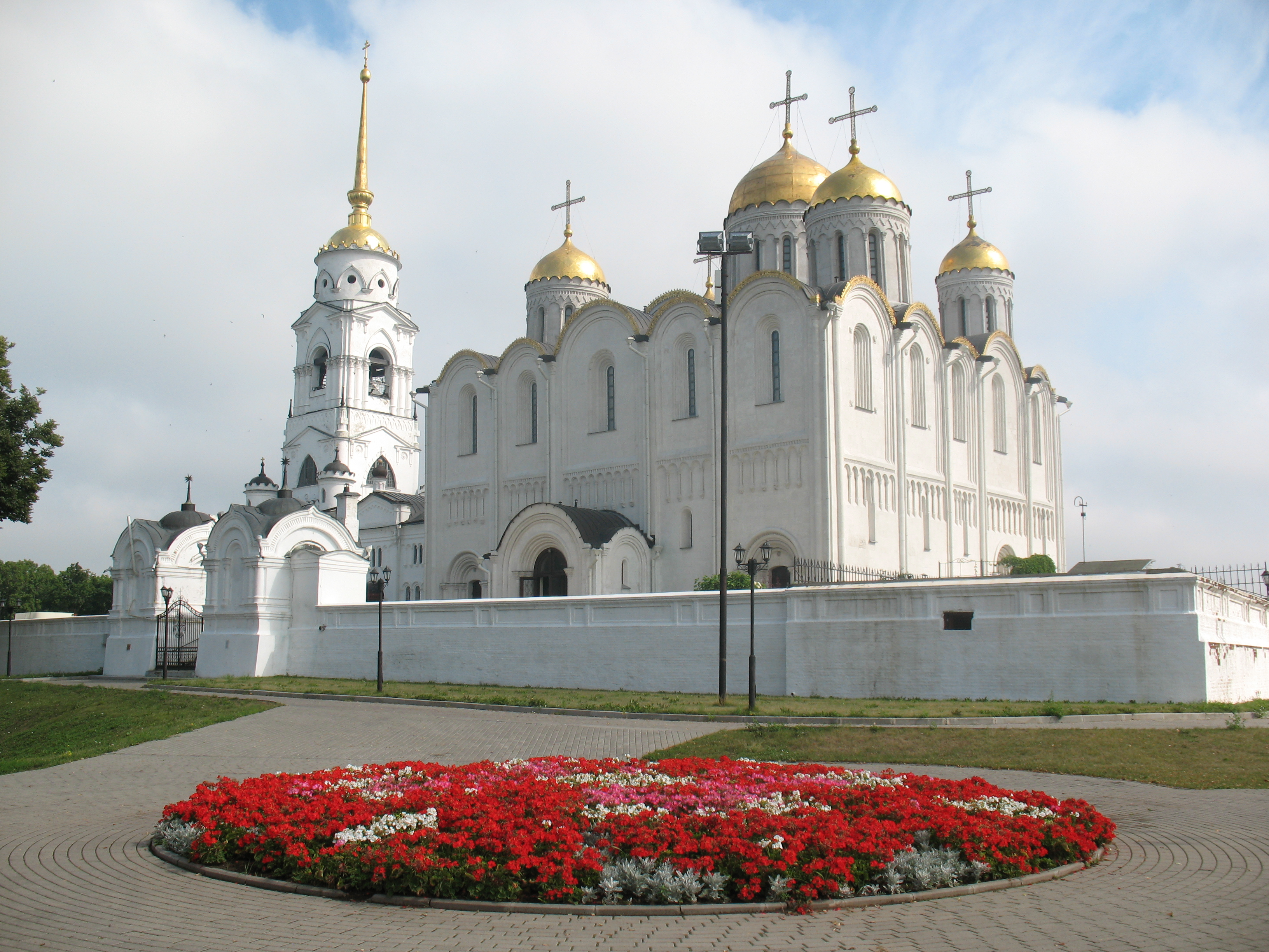 Dormition Catheral in Vladimir